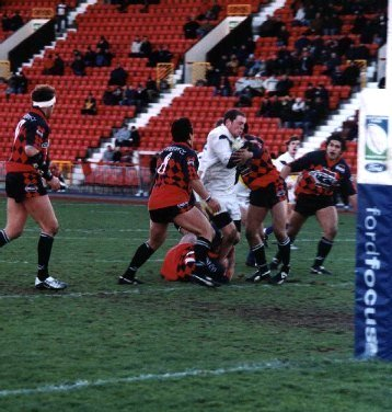 This photo is from Gateshead Thunder vs. Limoux rugby league challenge cup match, held on the 8th February 2004. Released under GFDL by the Gateshead Thunder webmaster (me).Grinner 14:09, Aug 18, 2004 (UTC)